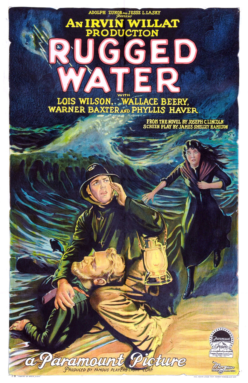 Poster for the 1925 film Rugged Water. There are no copyright marks. At bottom left is 1B Country of origin USA. At bottom left is the logo of Morgan Litho Company, Cleveland--they printed the poster--and This poster leased from Famous Players Lasky Corp.